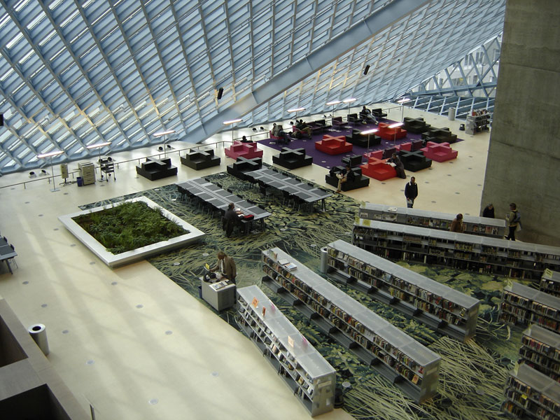 Back downtown, here's the Seattle Library.